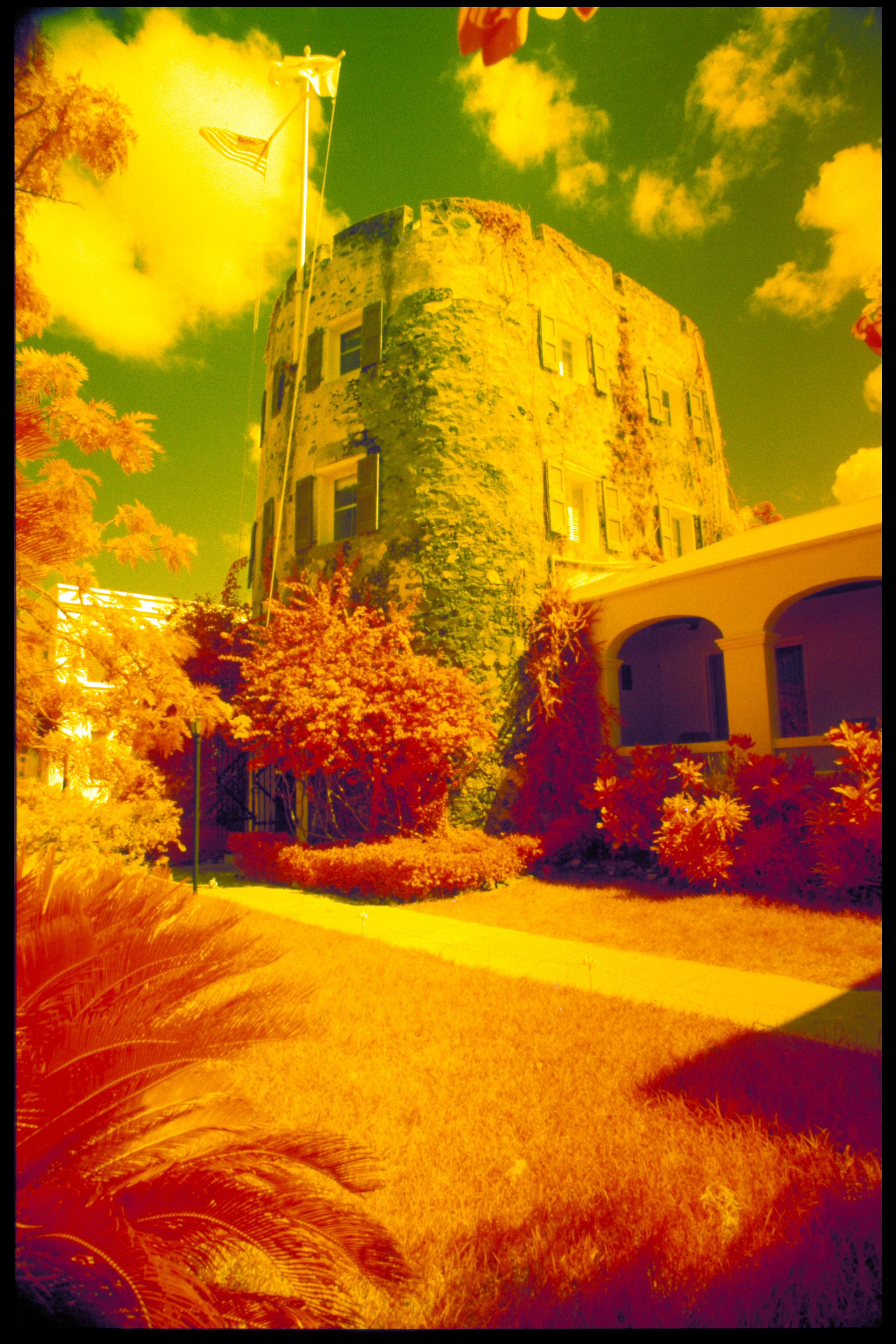 Bluebeard's Castle, St Thomas 1980, Infra Red Film Analog